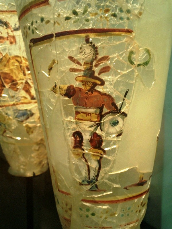 Greco-Roman gladiator on a glass vessel. Begram treasure. Personal photograph taken at the Musee Guimet, Paris.